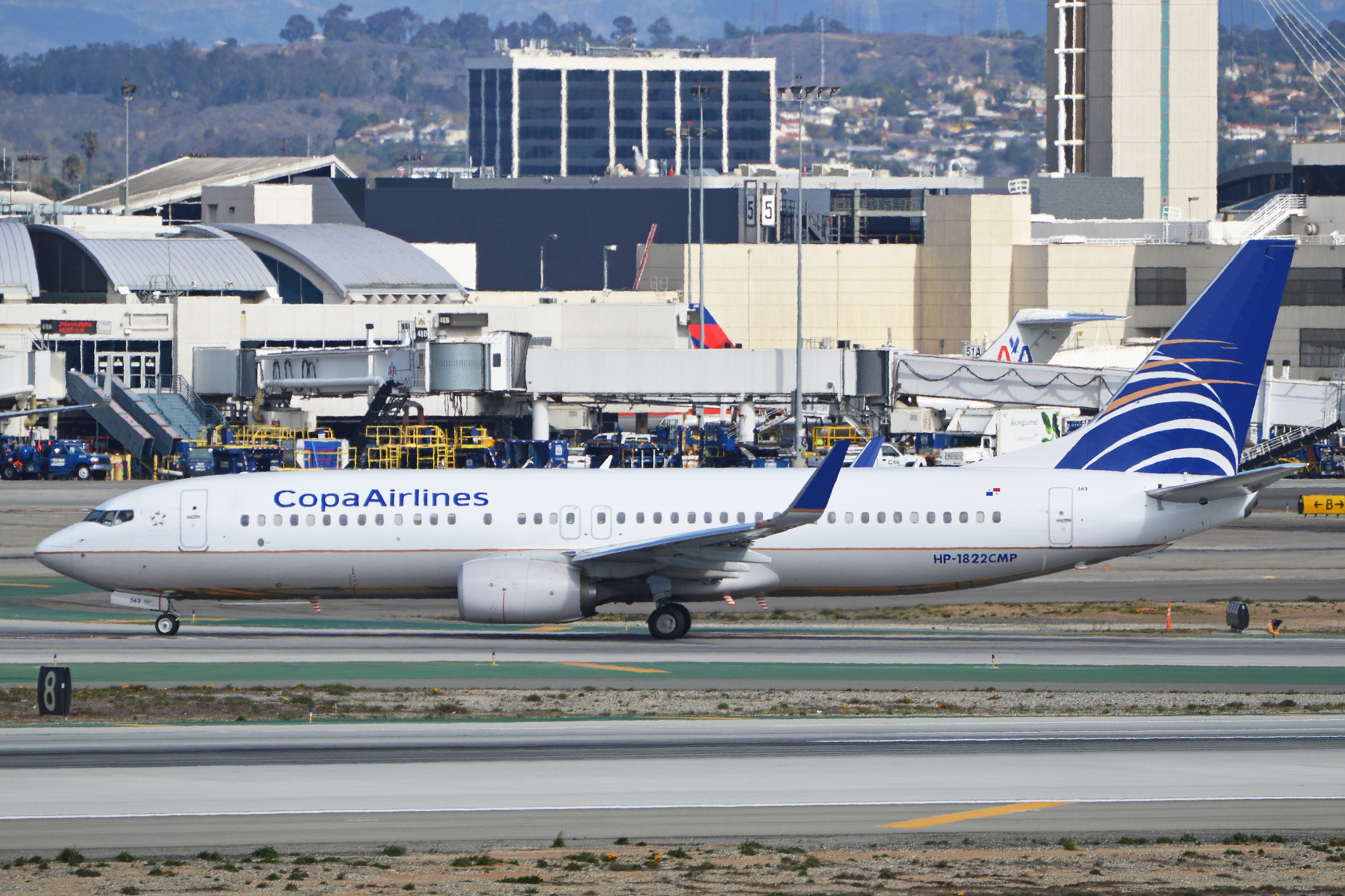 c/n 40779, l/n 4033. Built 2012. Seen taxiing in after landing at LAX. Taken from the Imperial Hill spotting location. Los Angeles, California, USA. 08-2-2014